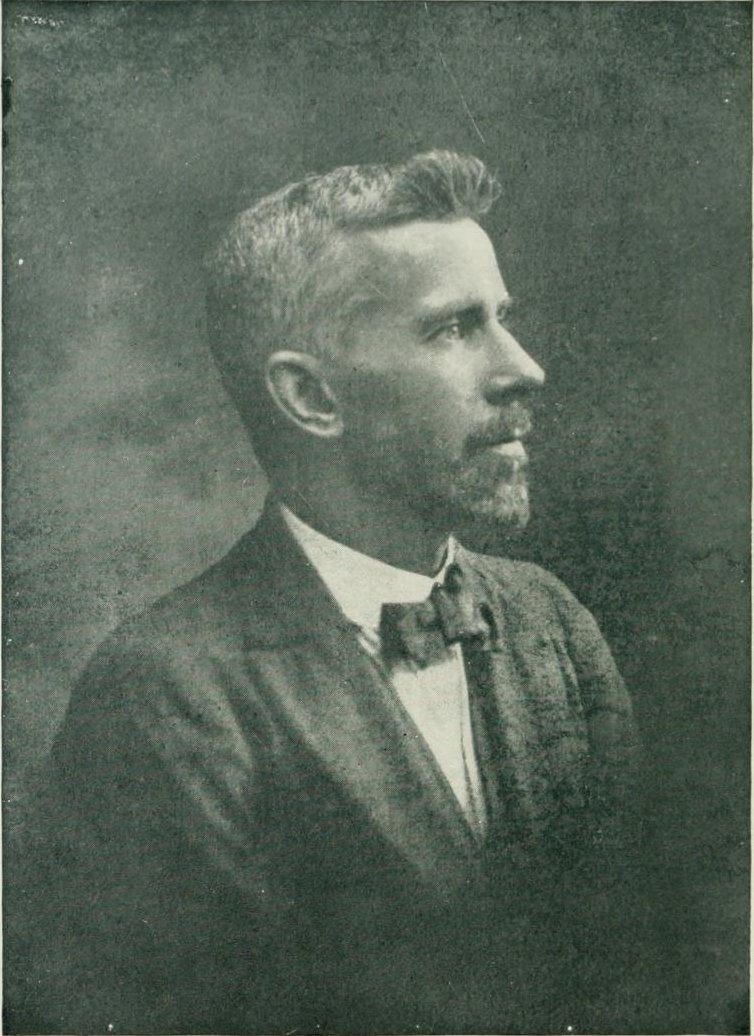 Edward. L. Gardner, member of theosophical society in London, in the 1922 book "The Coming of the Fairies" by Sir Arthur Conan Doyle (died in 1930)